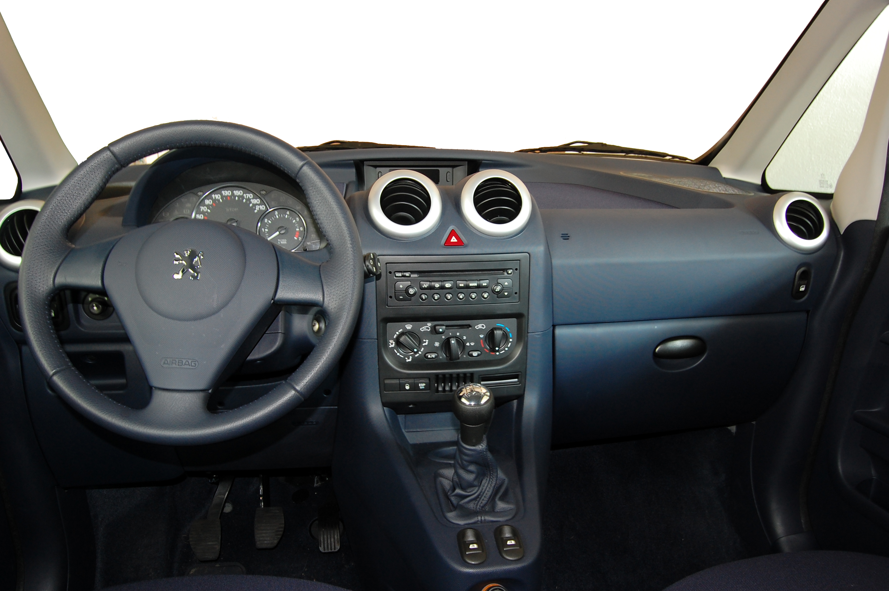 Interior of